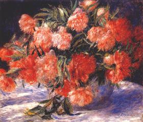 Work by Pierre-Auguste Renoir